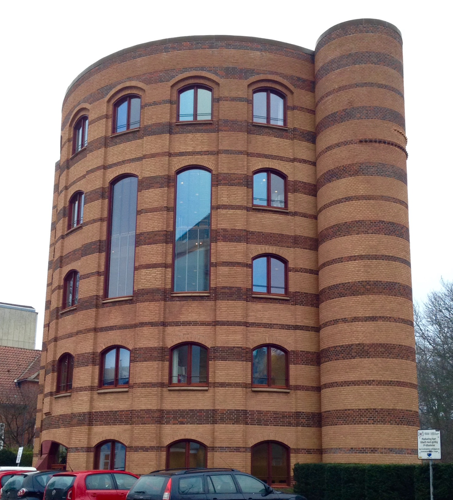 Home of the Danish Librarians' union.